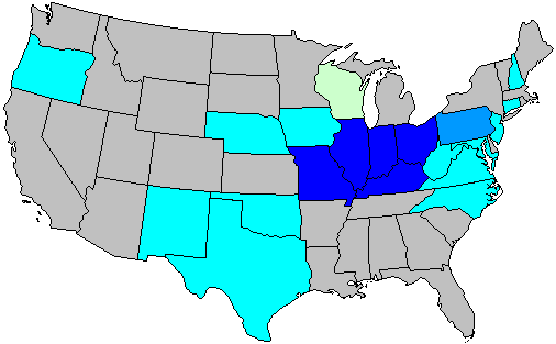 Summary of party change of U.S. house seats in the 1930 House election. Stripes indicate a tie between the gains of two or more parties. Legend: 6+ Democratic seat pickup 3-5 Democratic seat pickup 1-2 Democratic seat pickup 1-2 Republican seat pickup 3-5 Republican seat pickup 6+ Republican seat pickup 1-2 Progressive seat pickup 3-5 Progressive seat pickup 1-2 Farmer-Labor seat pickup 3-5 Farmer-Labor seat pickup Note: years ending in 2 may have inconsistent results due to redistricting.